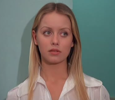 screenshot from the film La minorenne (1974)